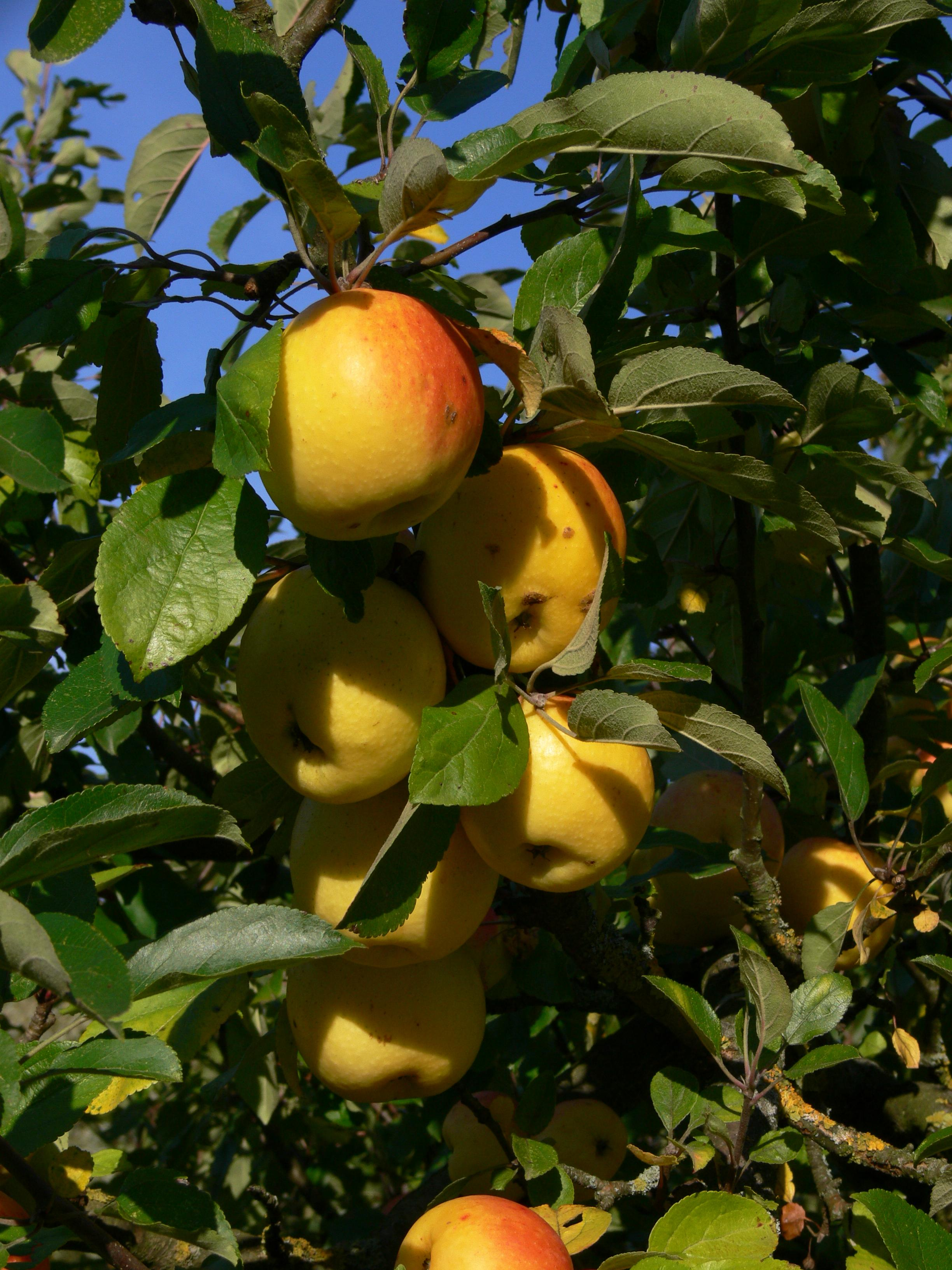 apple 'Bittenfelder'